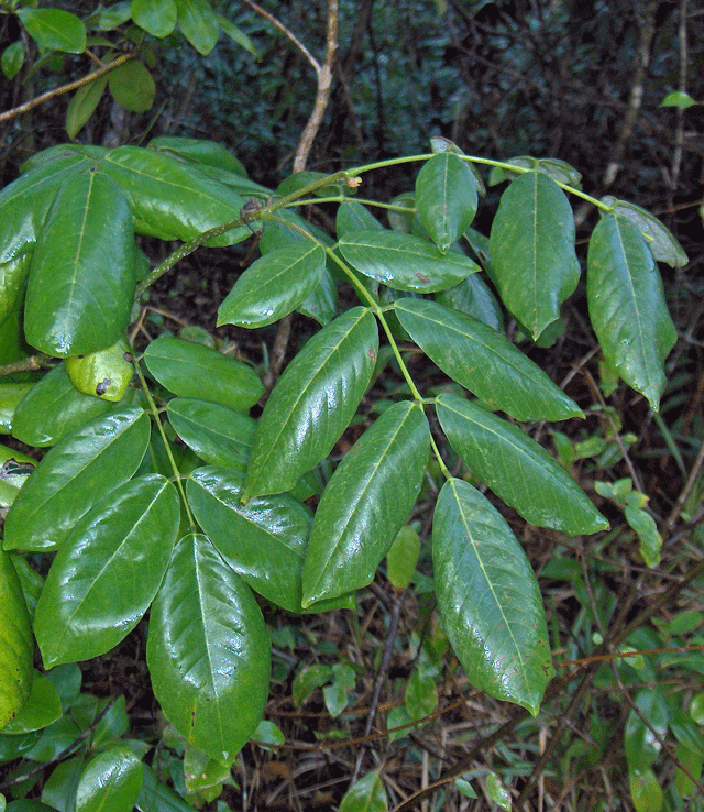 Found in Collier-Seminole State Park, Florida